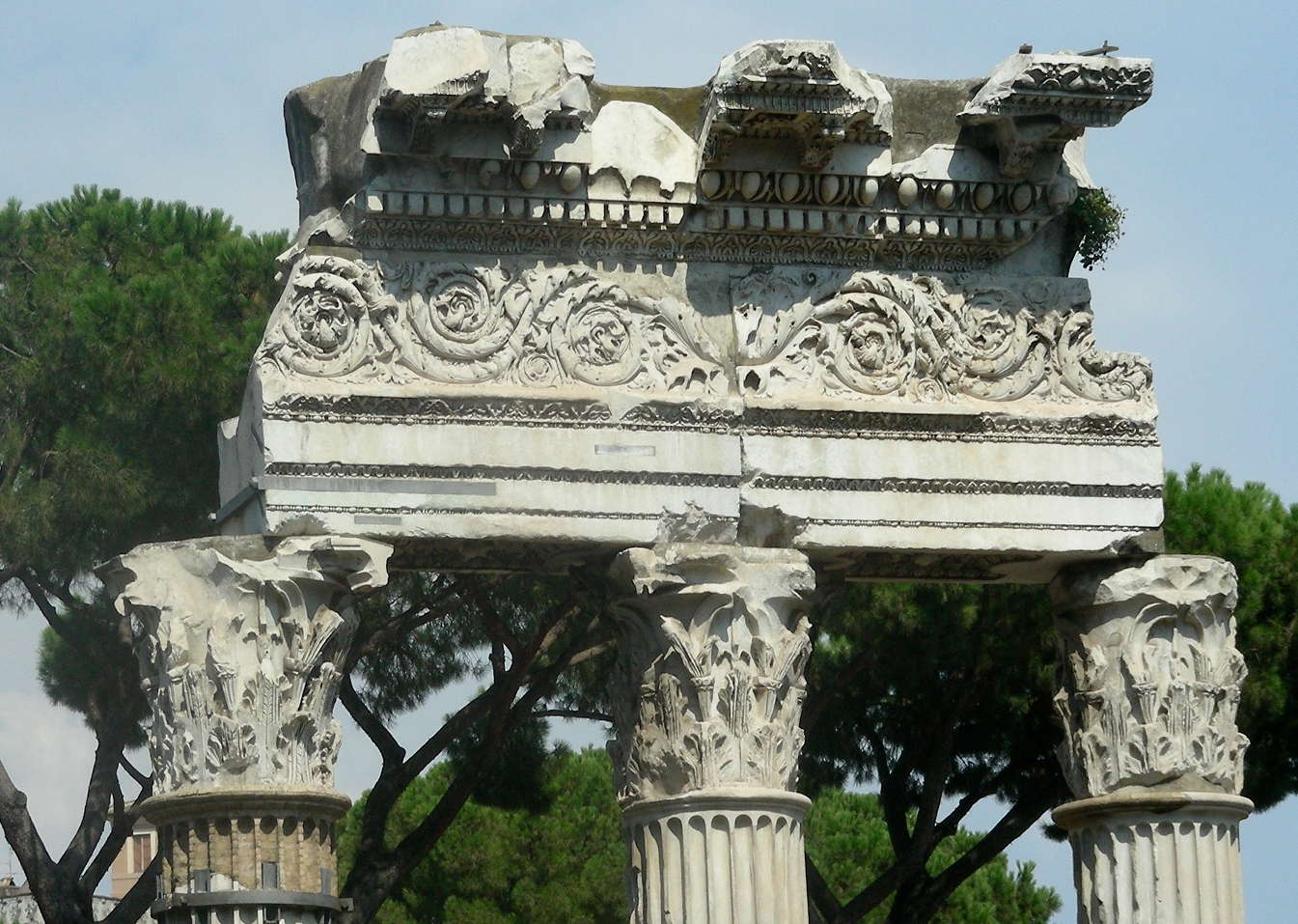 Rome, Caesar's forum, Venus Genitrix temple, south-west side (left side)